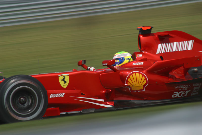 Felipe Massa driving for Ferrari at the 2007 United States Grand Prix.